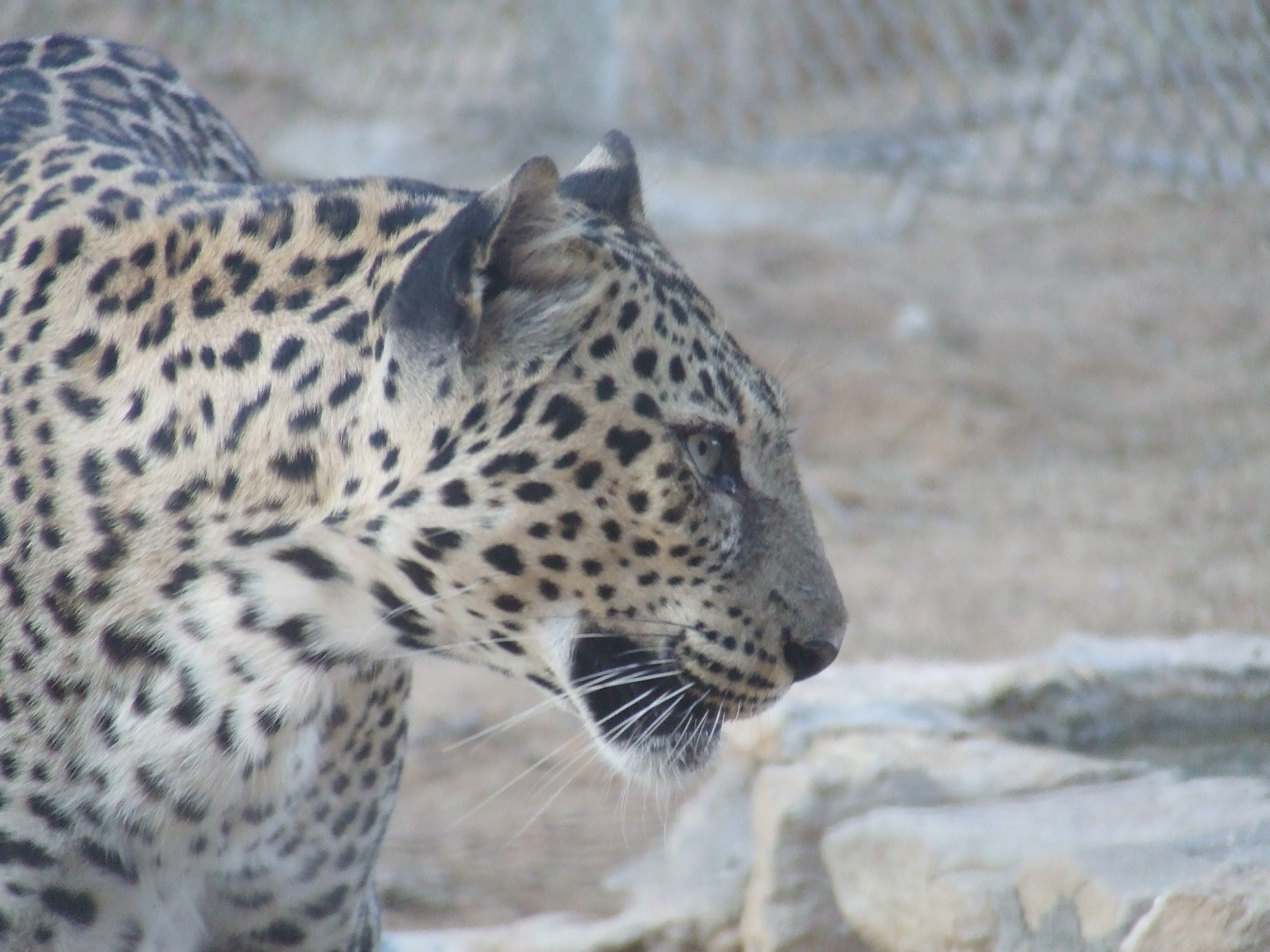 leopard profile